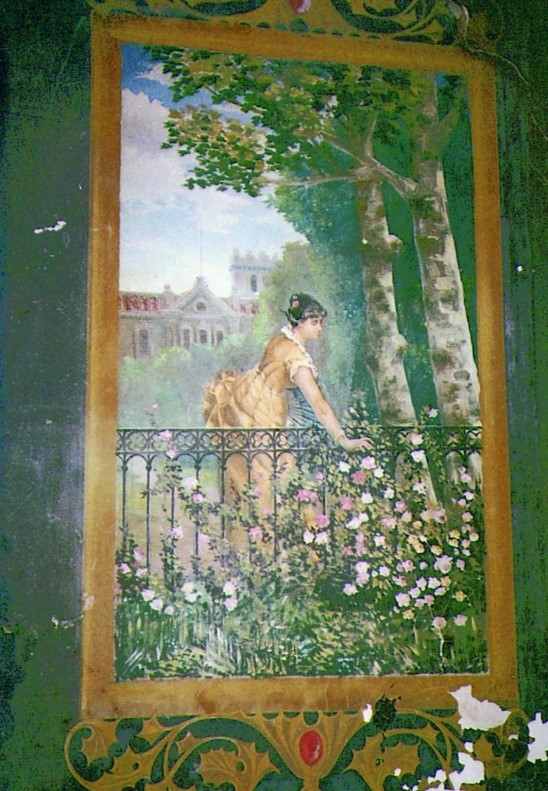 Pintura involuntariamente destruida durante la restauración. Colección Carmen Caprile